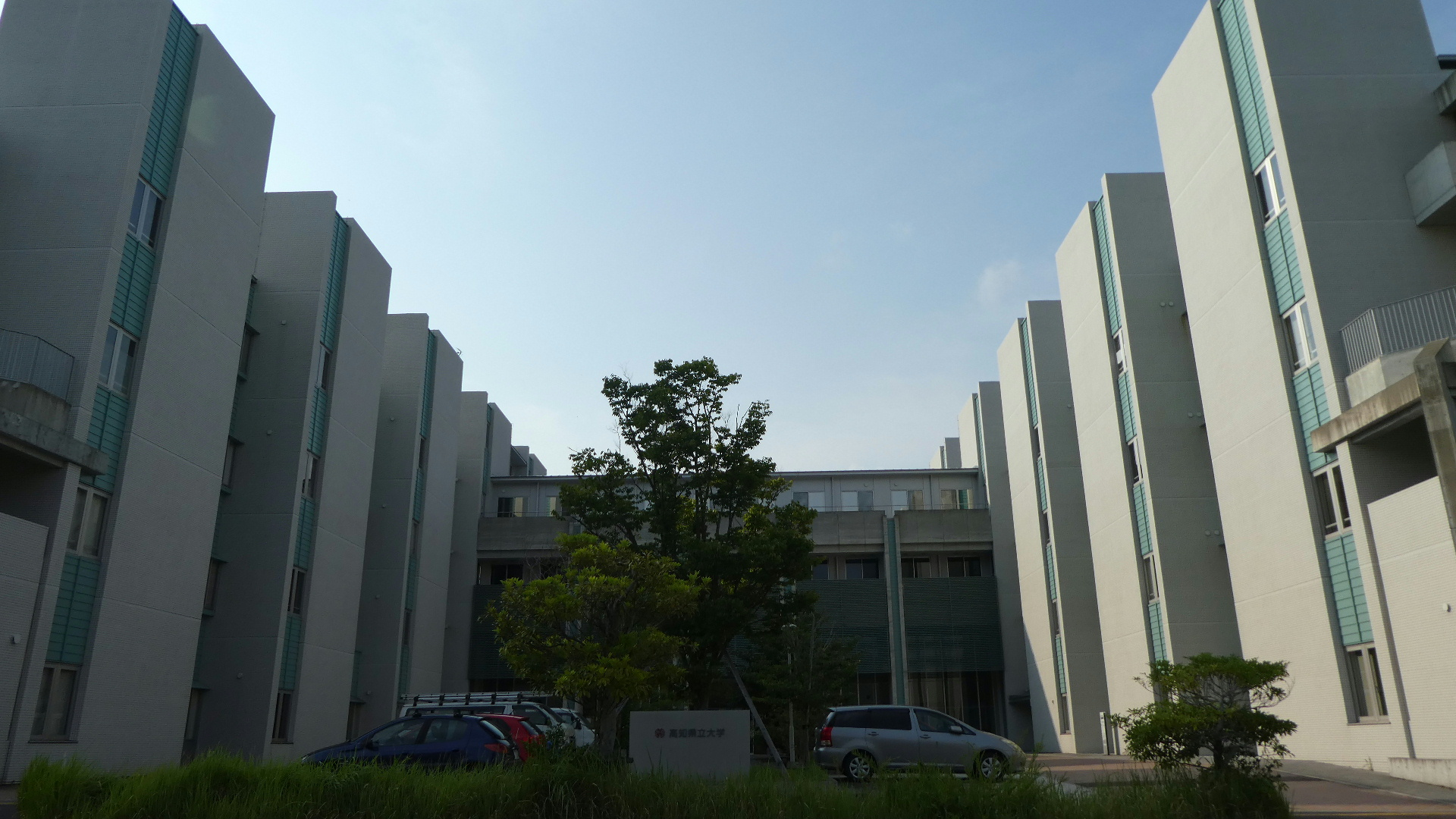 University of Kochi Ike Campus